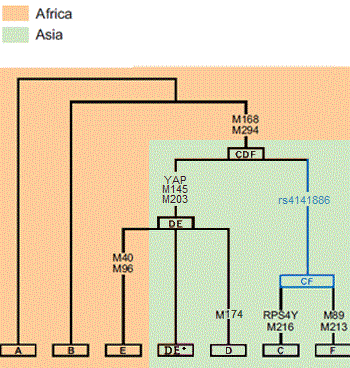 Y chromosome phylogenetic tree